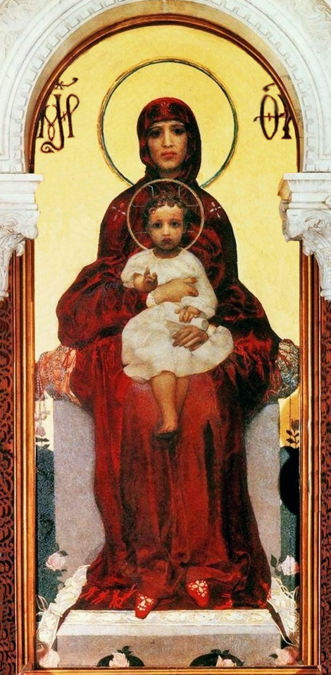 Icon -The Blessed Virgin Mary With Child by Mikhail Vrubel, Ukraine, Kiev, St. Cyril's Monastery